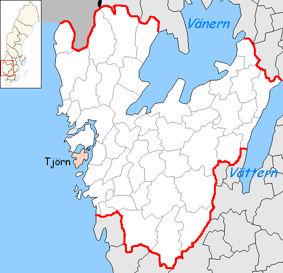 Tjörn Municipality in Västra Götaland County Designed by me. Mere outlines are a PD source from